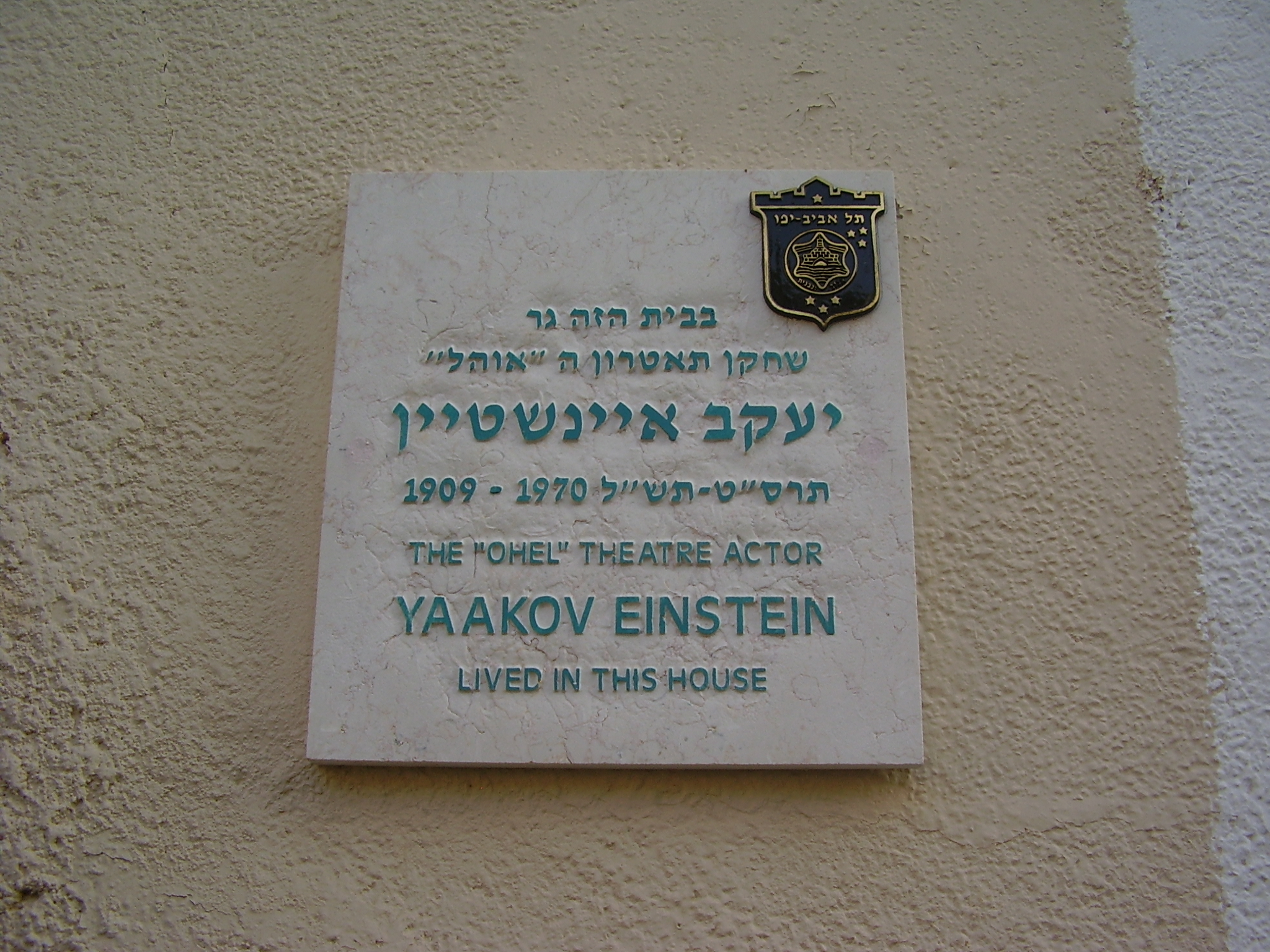 memorial plaque on the actor ya'akov einstein house in tel aviv שלט זיכרון על בית השחקן יעקב איינשטיין ברח' גורדון31 בתל אביב